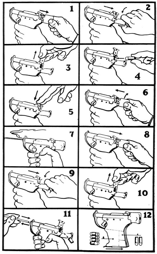 Operating instructions distributed with the U.S. World War II "FP-45 Liberator" pistol